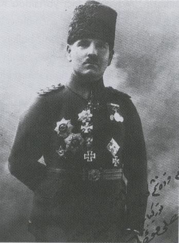 Ali Fuat Pasha, WWI.